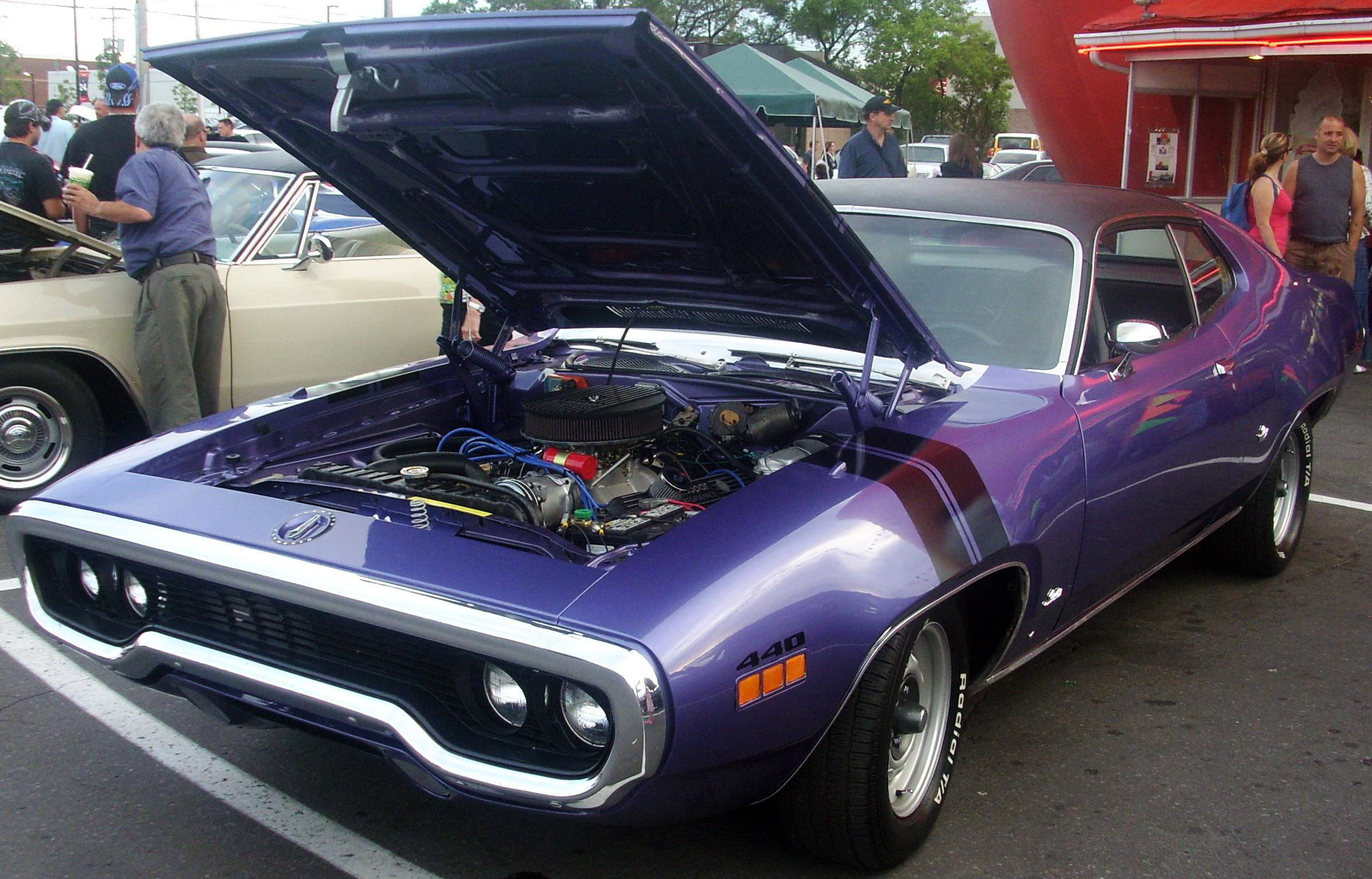 Plymouth Road Runner photographed in Montreal, Quebec, Canada at Gibeau Orange Julep.